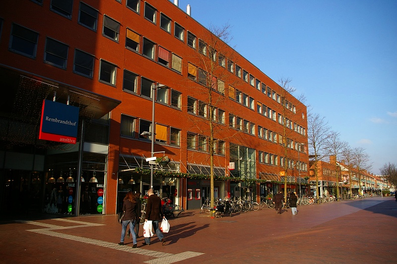 Amstelveen Rembrandthof